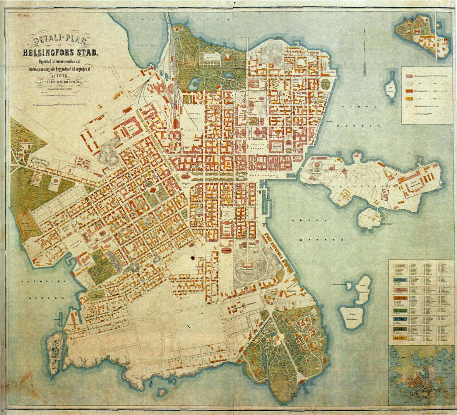 Engineer Claës Kjerrström's map of Helsinki from the late 1870s.